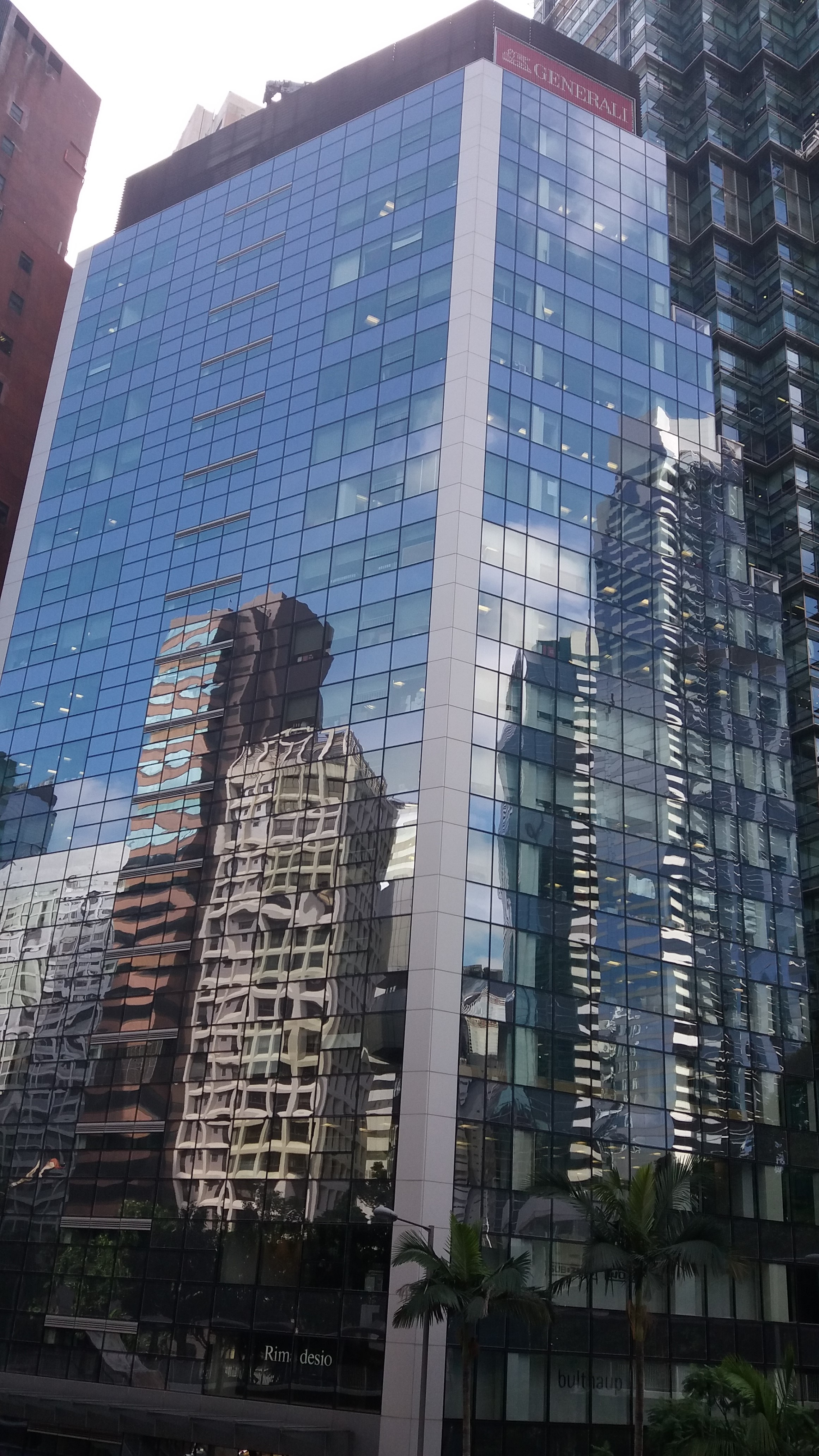 Generali Tower at 8 Queen's Road East, Wan Chai (Nov 2016)